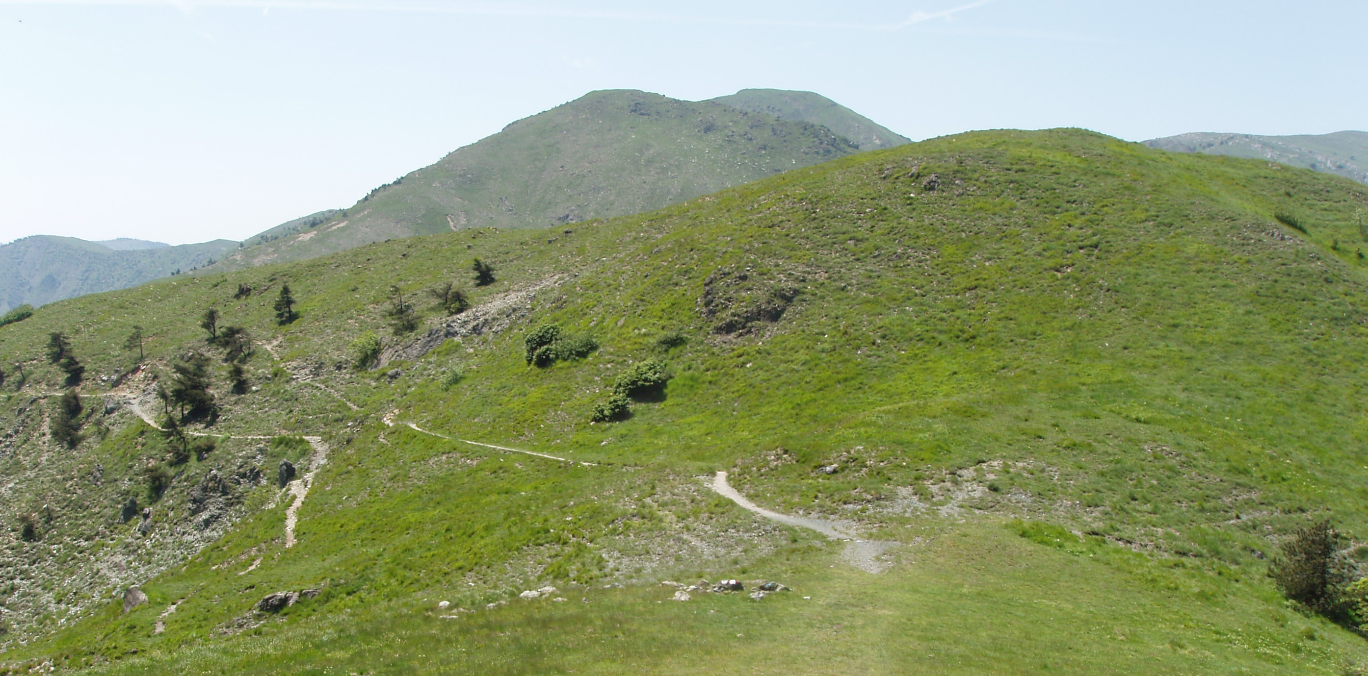 Mountain grassland nearby Monte Taccone (Ligurian Apennine)